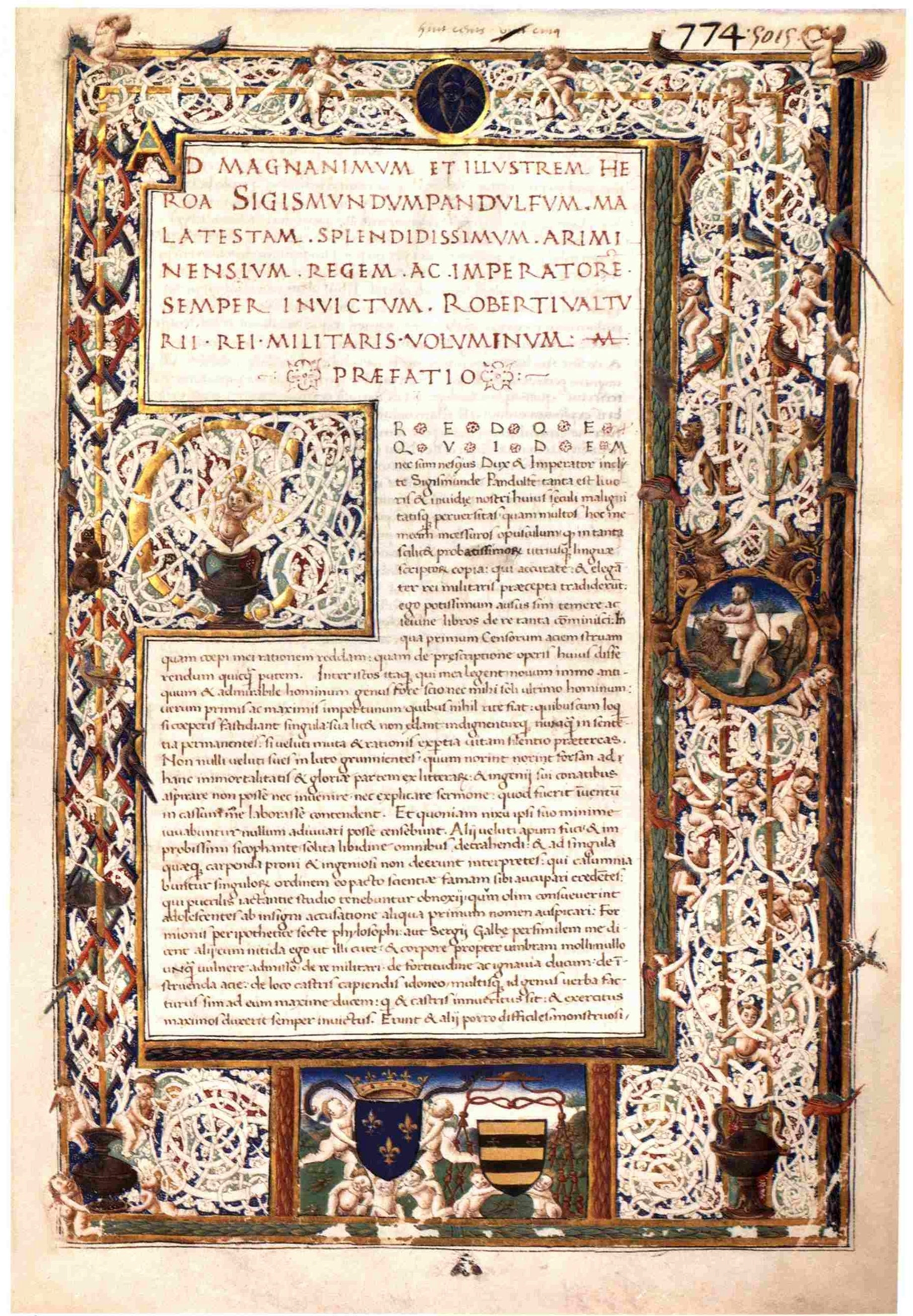 The author’s preface to the treatise „De re militari“ in the manuscript Paris, Bibliothèque nationale de France, Lat. 7237, fol. 1r.